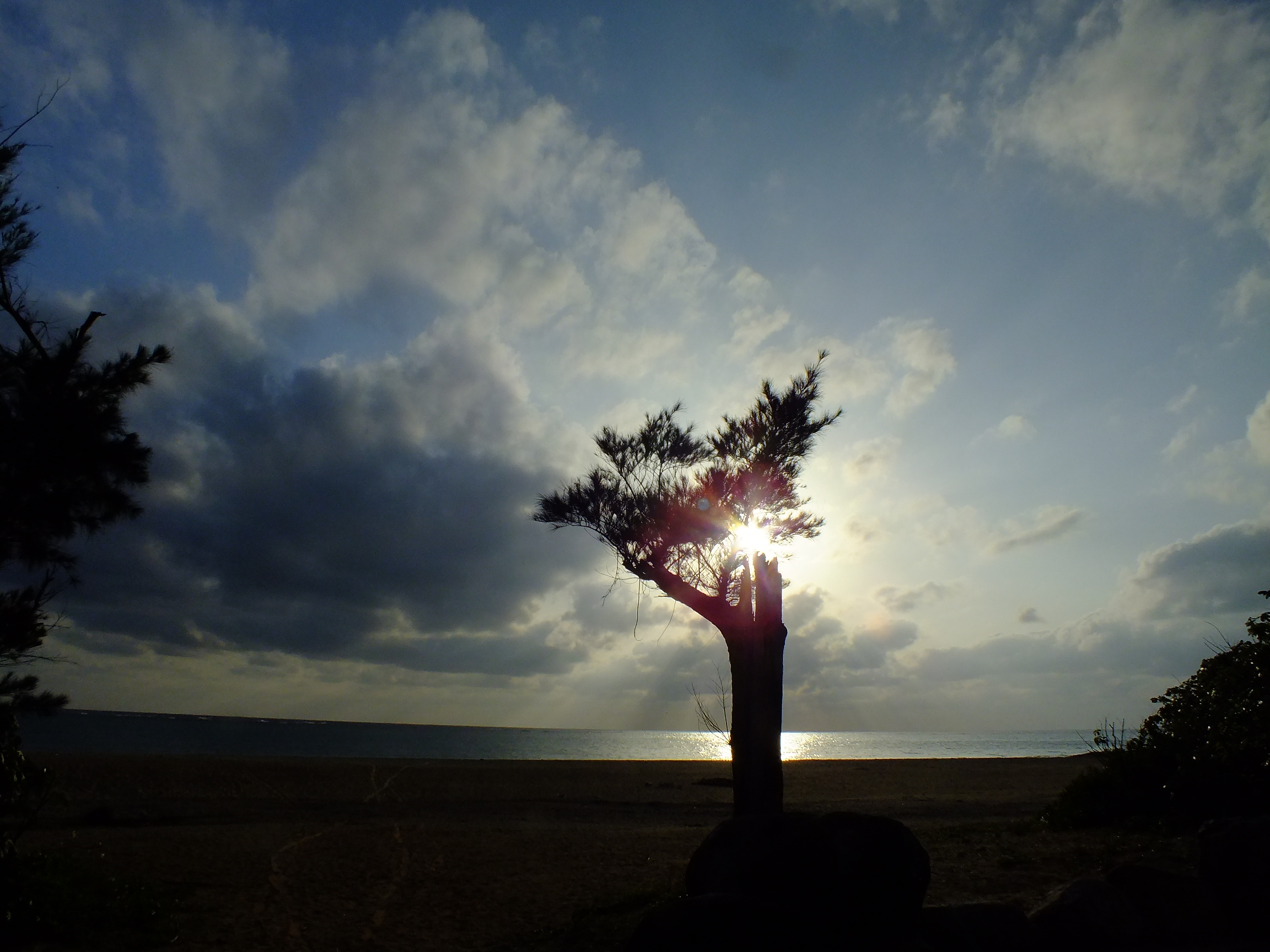 Ahra-Beach in Kumejima Island, Okinawa Prefecture, Japan.